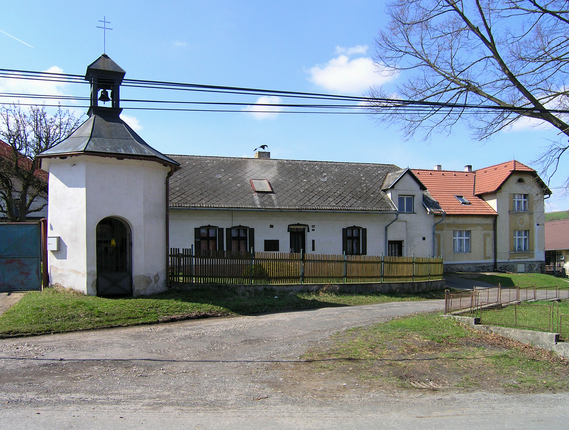 Chapel in Malé Přílepy, part of Chýňava village, Czech Republic